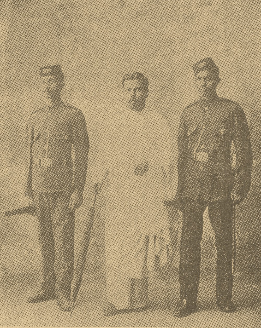 Photograph of Brahmachari Walisingha Harischandra After taken Into Ceylon Police Custody In 1903.